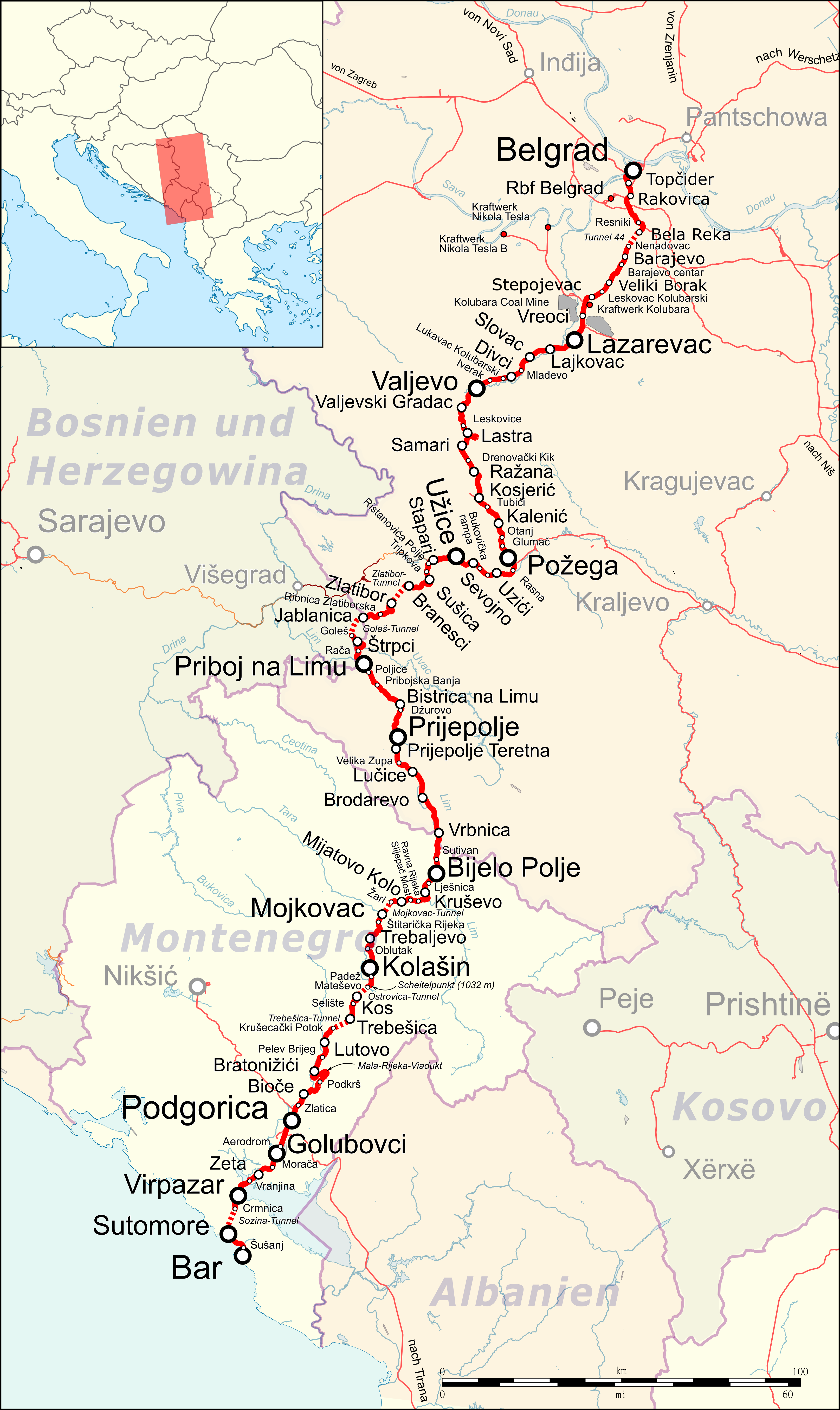 Location map of Belgrade–Bar railway